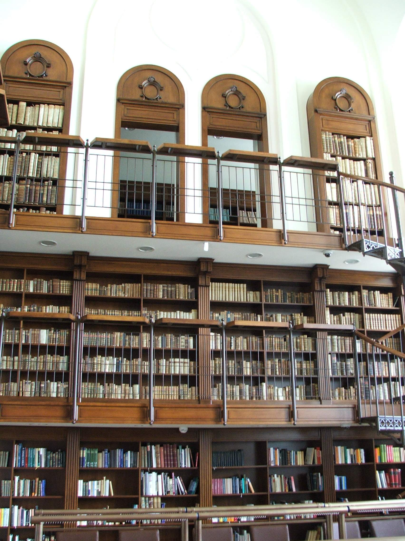 Old seminary of Esztergom, Hungary